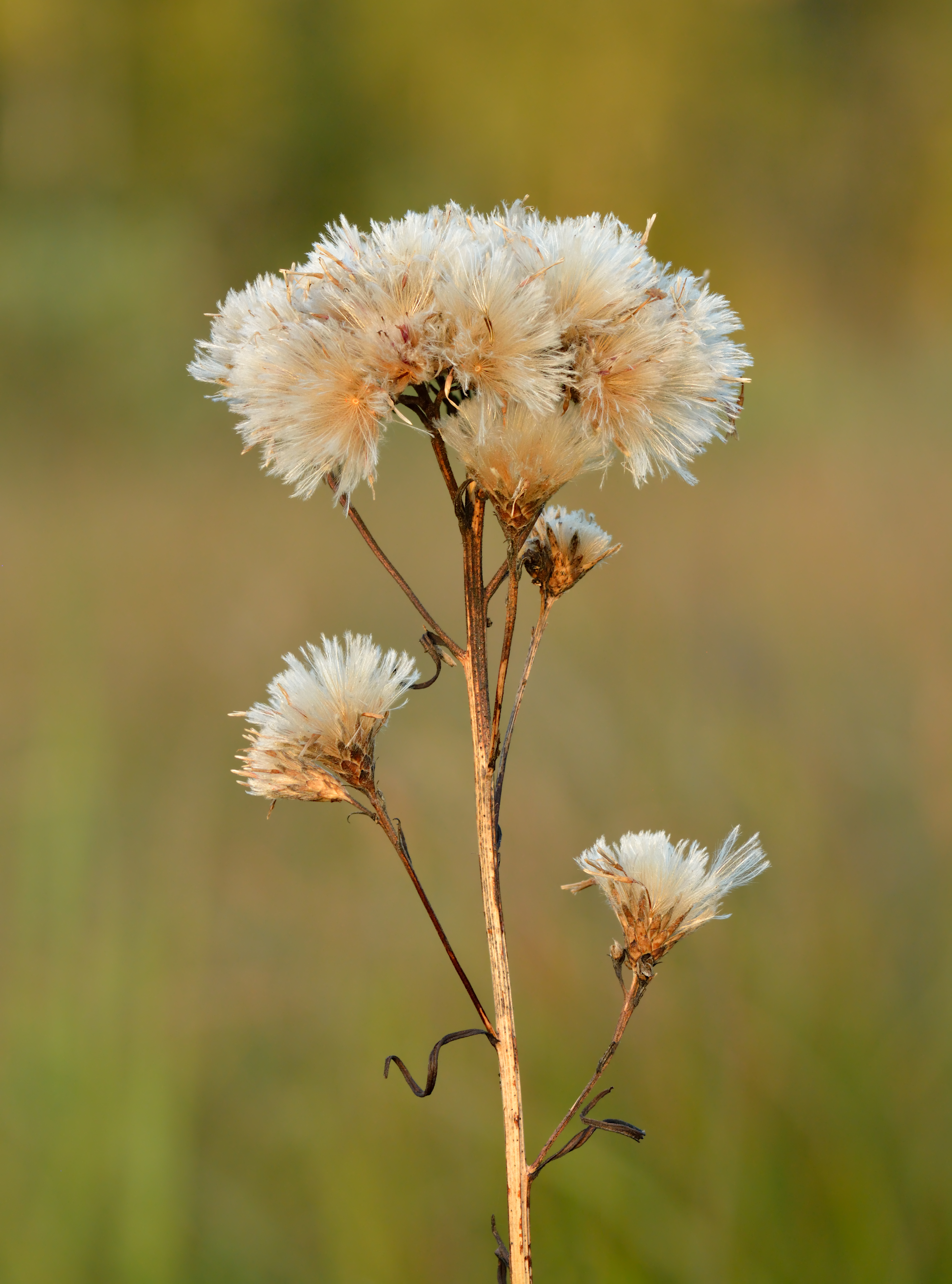 Estonian saw-wort (Saussurea alpina subsp. esthonica). Niitvälja Bog, northwestern Estonia.